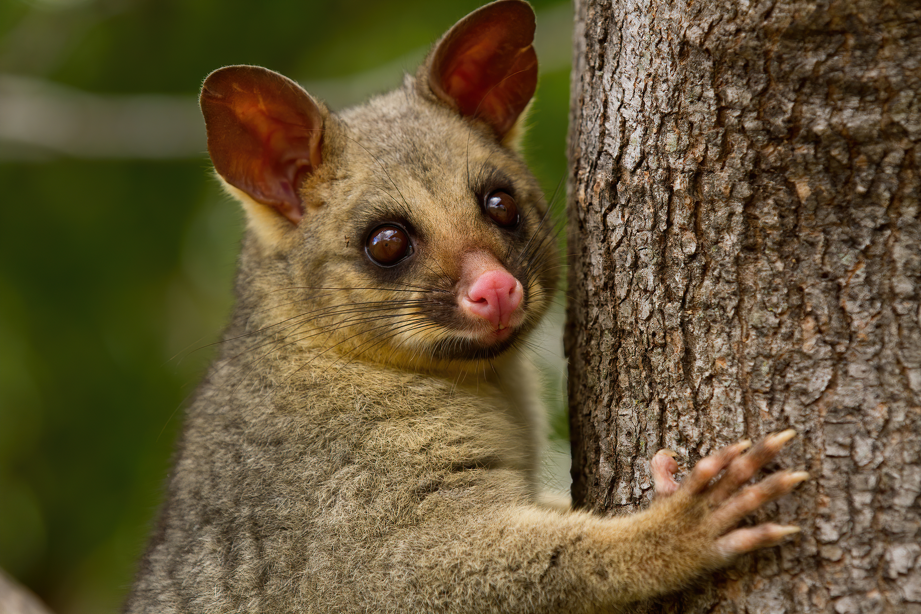 Brushtail Possum (Trichosurus vulpecula) in Roma Street Parklands, Brisbane, Queensland.